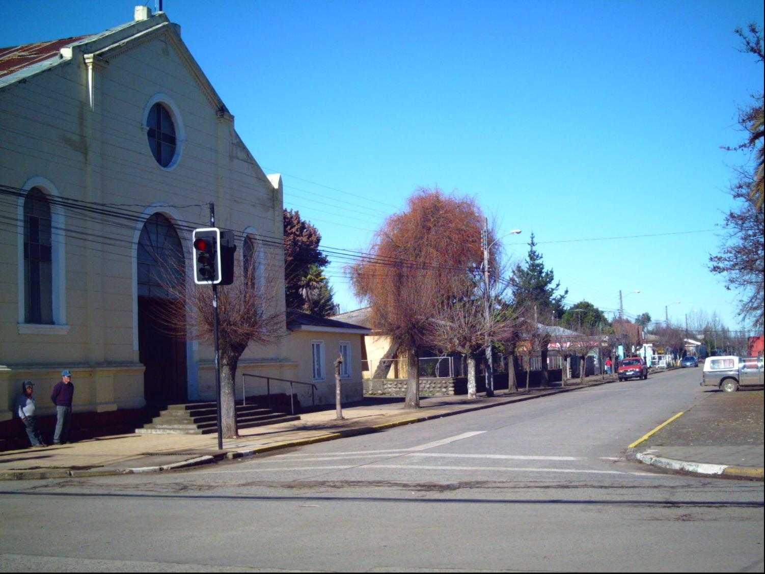 Street and church in Coihueco, Chile (Calle e iglesia en Coihueco, Chile)